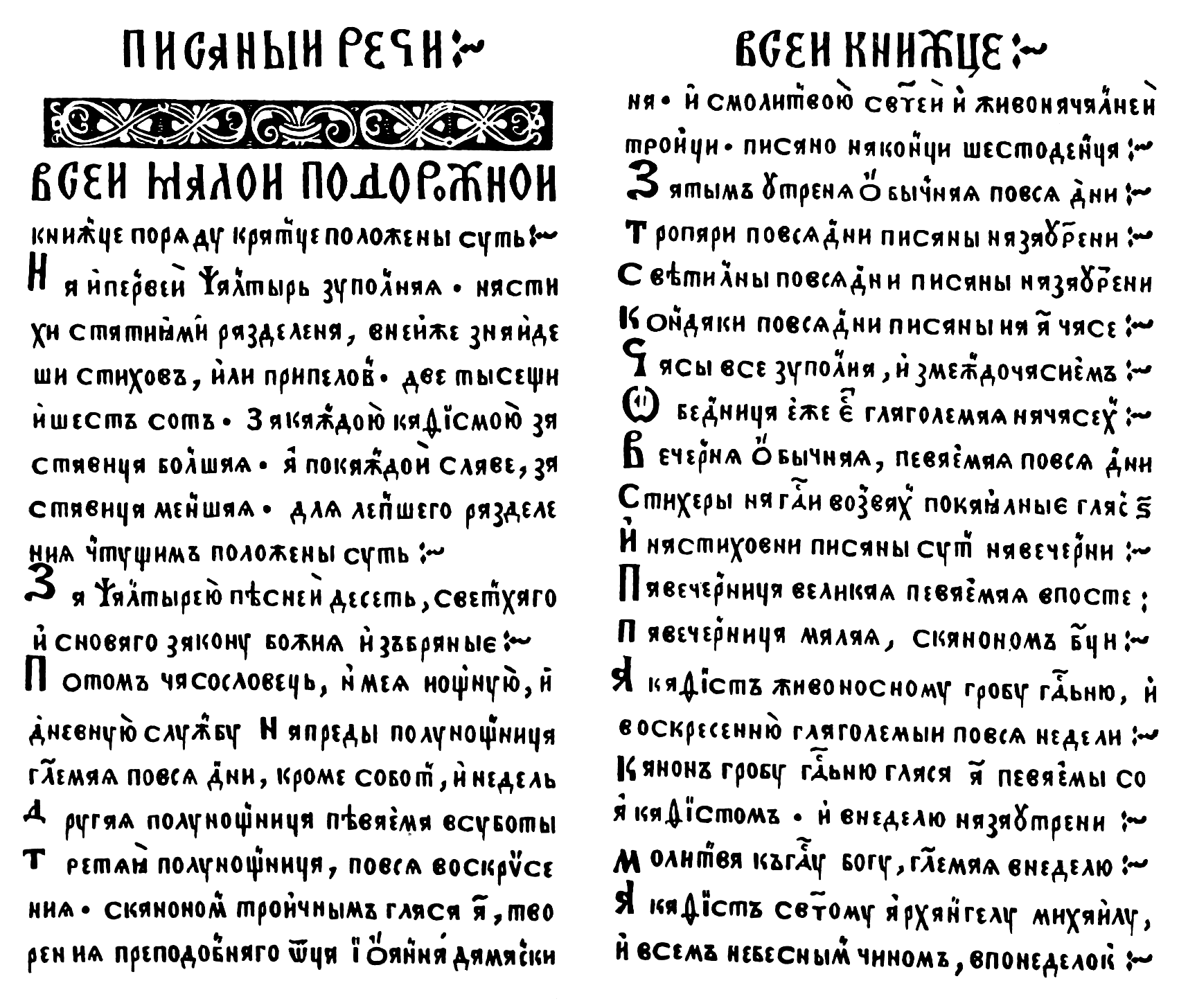 The Small Travel Book